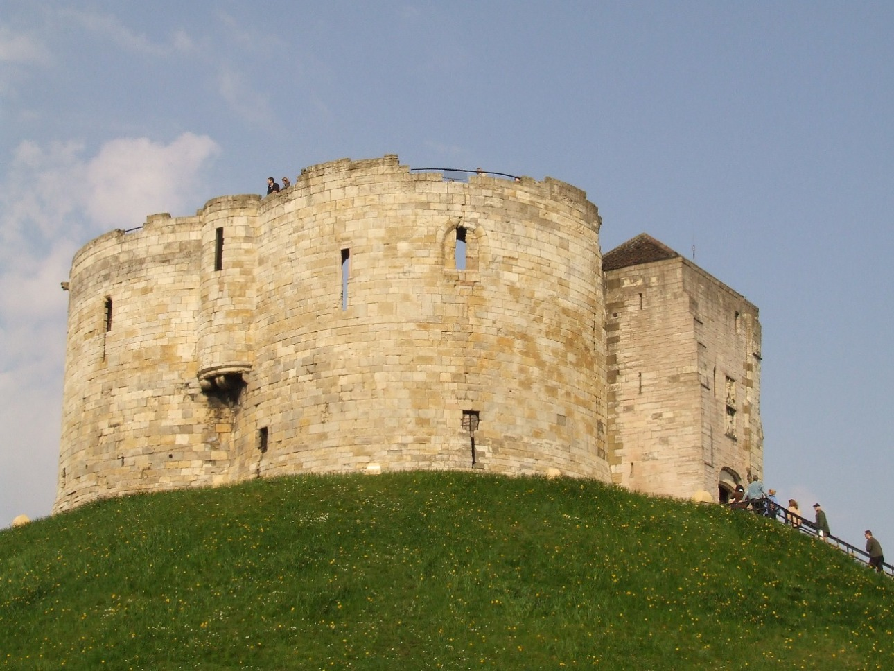 Clifford's tower